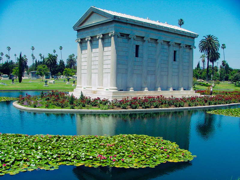 Tomb of philanthropist William A. Clark Jr., founder of the Los Angeles Philharmonic. Hollywood Forever Cemetery.